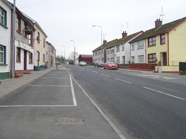 Lack, County Fermanagh. It has a couple of shops and pubs and a school. You pass through it in the blink of an eye.